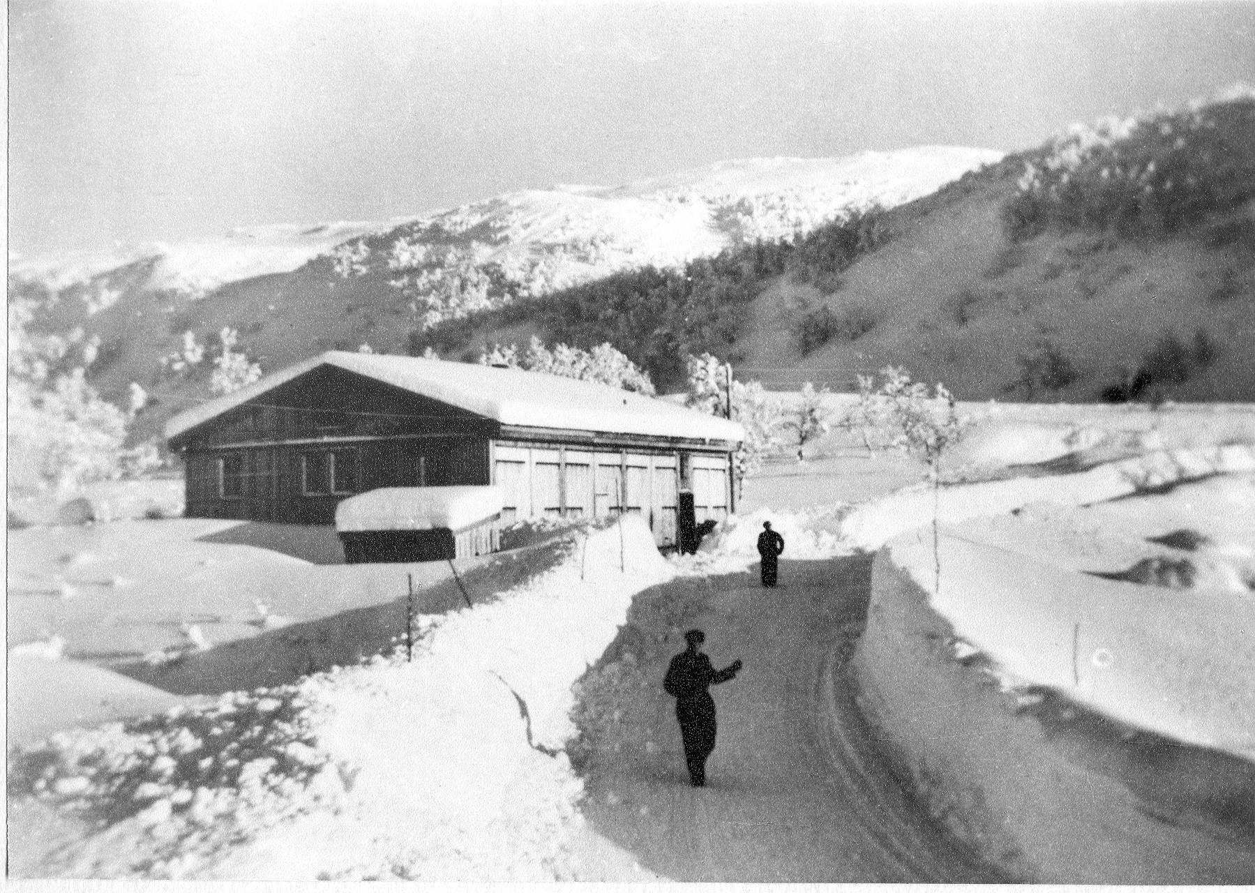 Photo of European route 6, Svalvassdal, in Vefsn municipality on the southern part of Korgfjellet. Photo by Otto Flatås in 1946, released into public domain by the historian Per Kristian Steinmo from Elsfjord in the municipality of Vefsn, on 18 September 2008